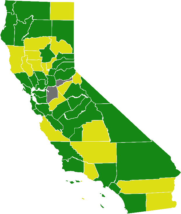 California Green Presidential Primary Election Results by County, 2012 Jill Stein Roseanne Barr Tie